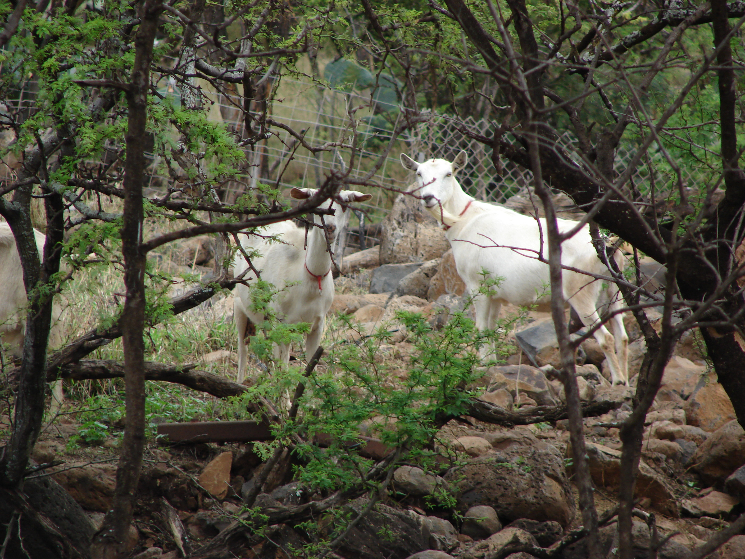 Prosopis pallida (habit with goats). Location: Maui, Surfing Goat Dairy Omaopio